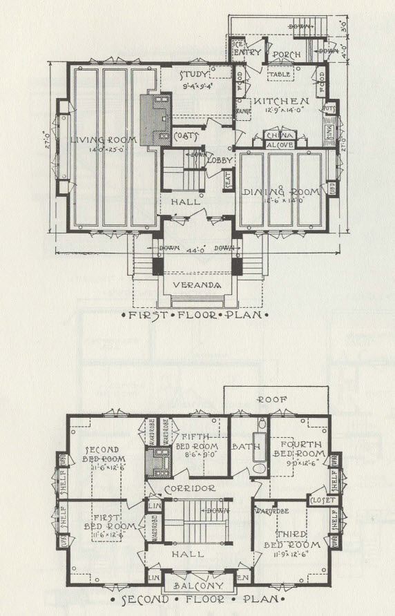 The original plan shows a study on the first floor where Wright put the back door, and the original orientation of the stairway.